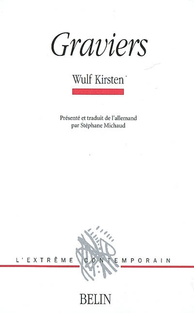 Book cover of Wulf Kirsten, "Graviers" 2009